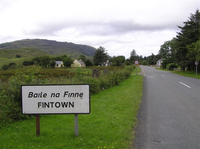 Fintown (Baile na Finne). County Donegal, Ireland. Approaching the hamlet from the east. Geograph project photo by Kenneth Allen